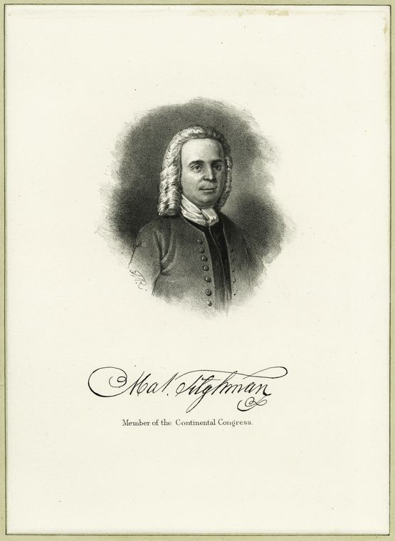 Matthew Tilghman, Delegate to Continental Congress